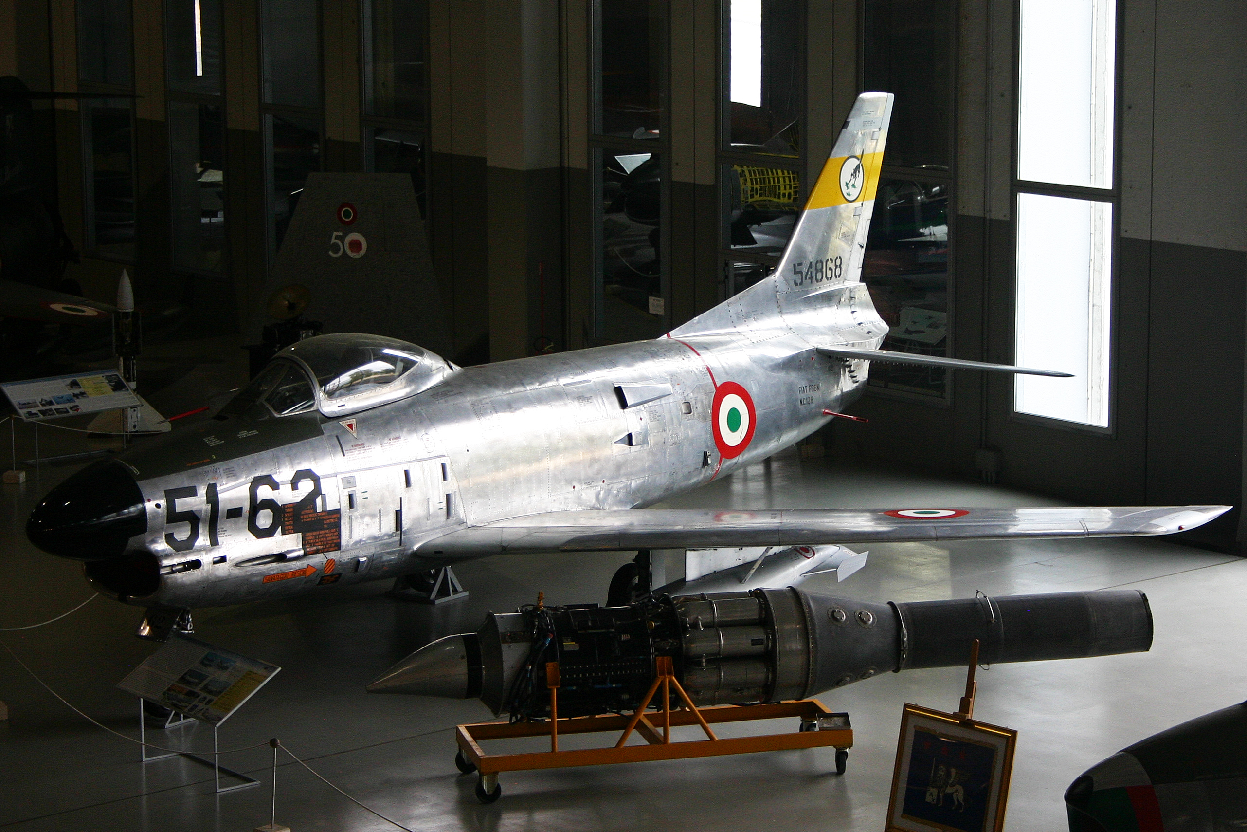 Displayed in Hangar SKEMA. US military serial 55-4868. msn 221-108